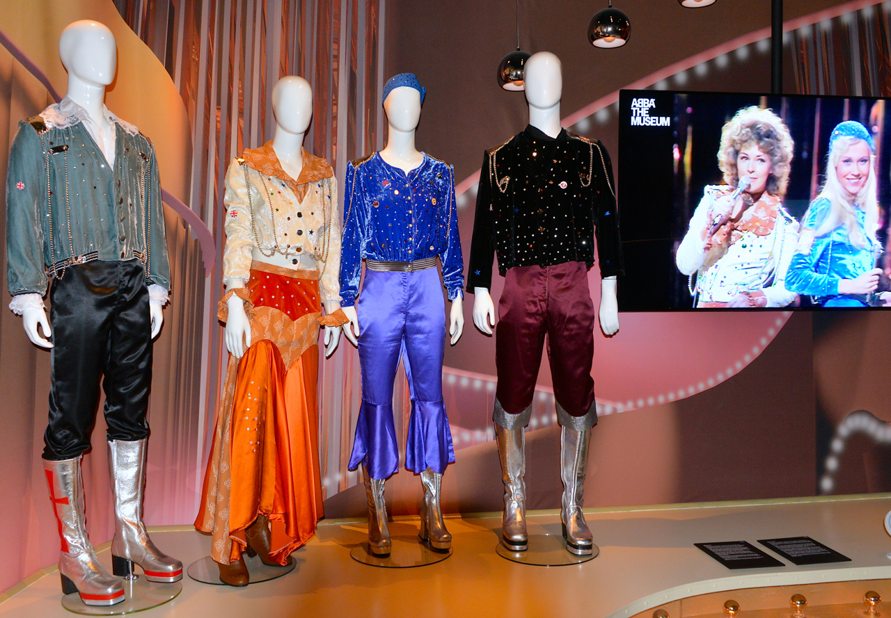 ABBA: The Museum May 6, 2013.